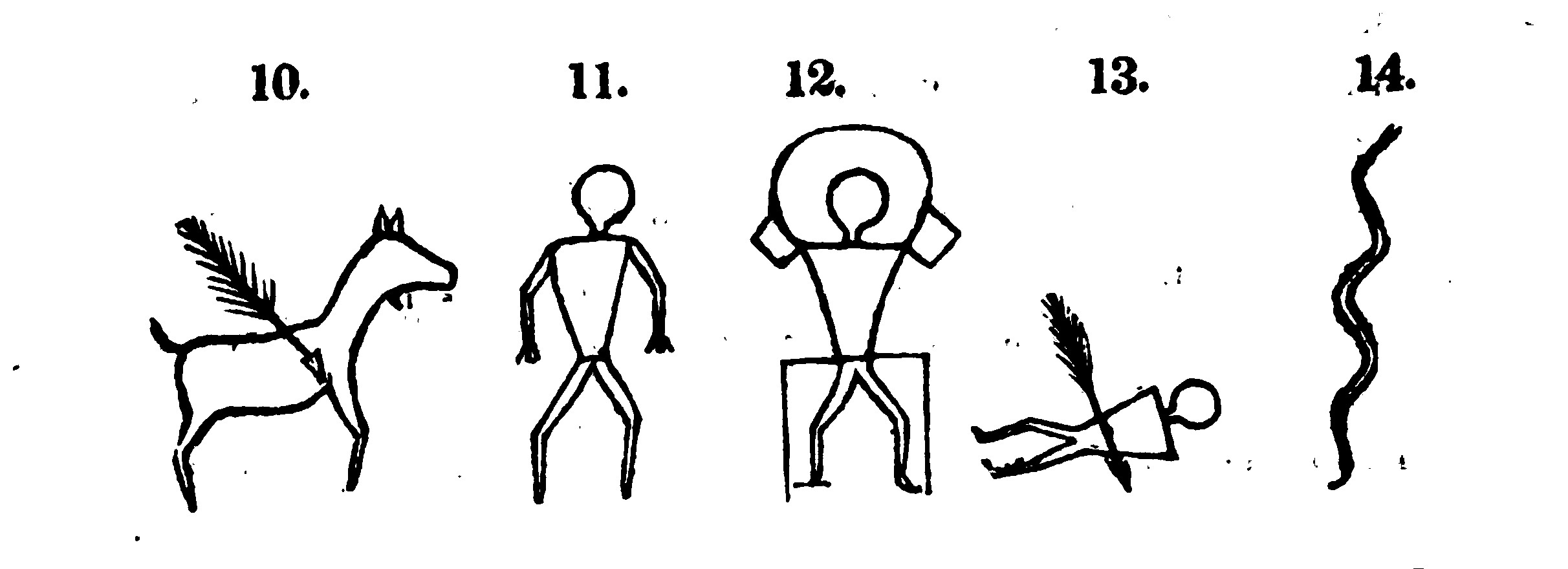 Drawing of Nativr American symbols, in A Narrative of the captivity and adventures of John Tanner", by Edwin James, London, 1830, page 365